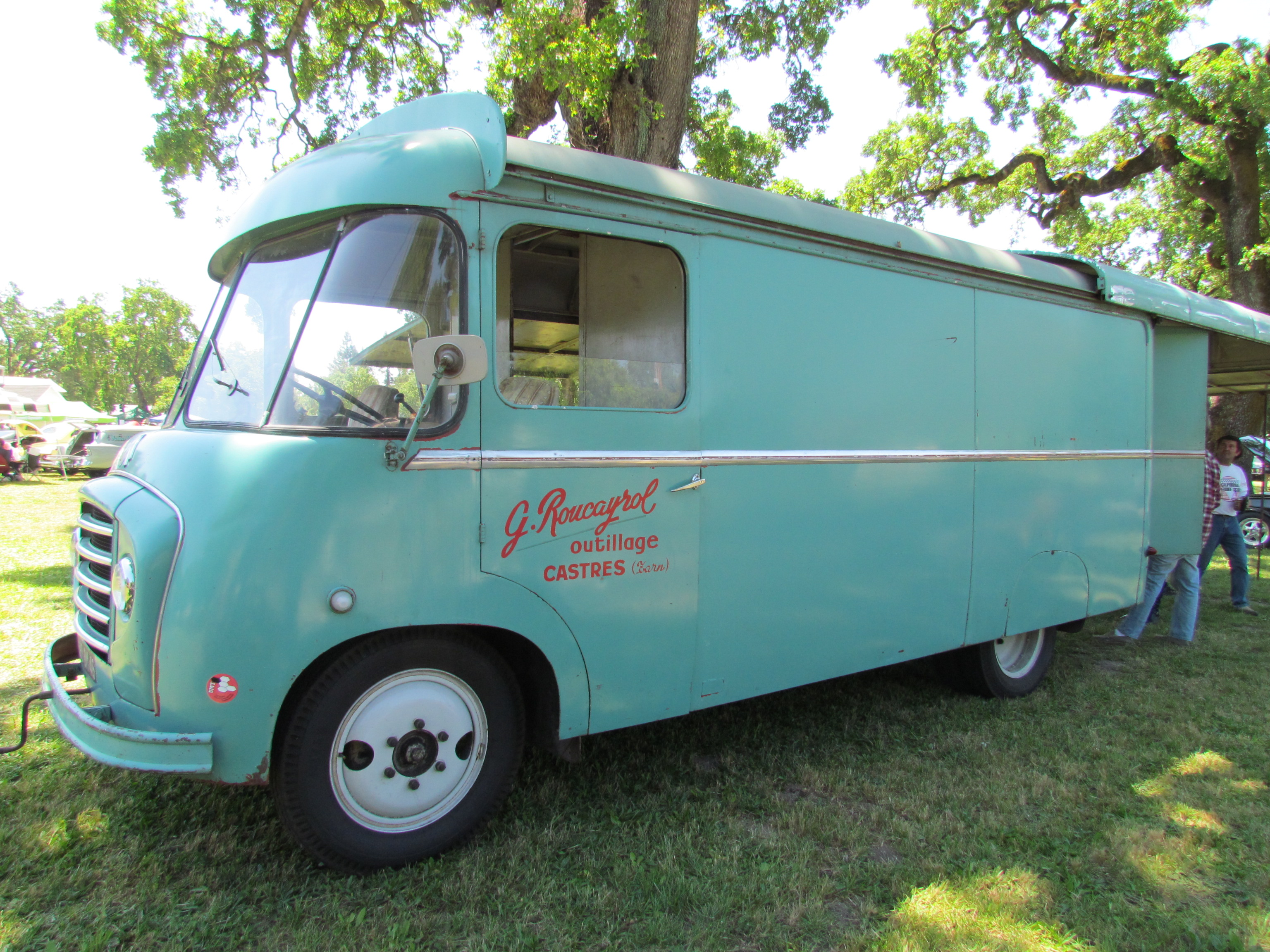 A 1958 market van based on a Citroën U23. It has an sliding roof that gives hard-roofed cover to an area almost twice as long as the van.Picture shot at the 2012 Fred's All American Old Car Day in the Stoke Ranch, Santa Rosa CA.